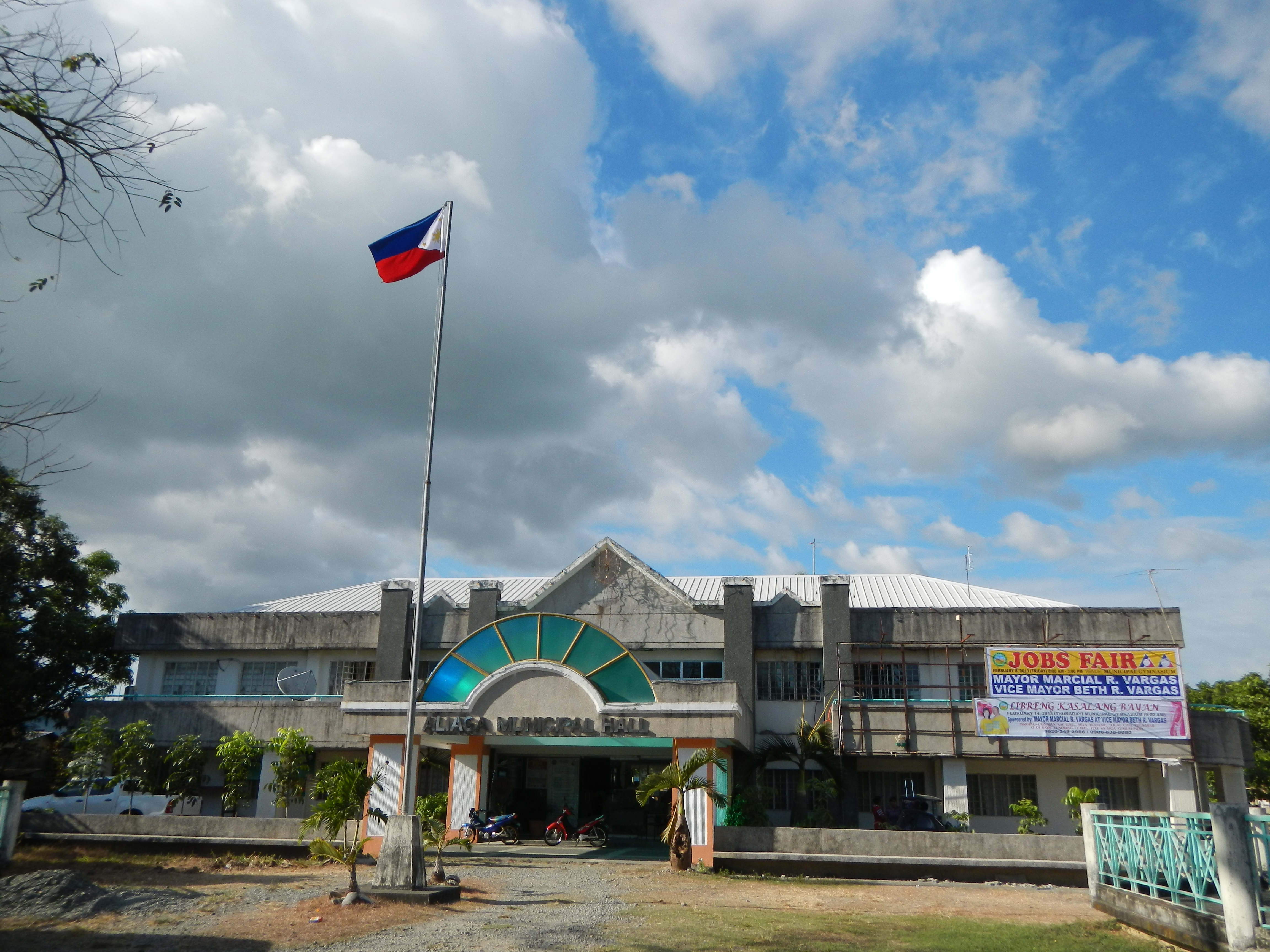 [1]Aliaga, Nueva Ecija is a second class municipality in the province of Nueva Ecija, Philippines, Formerly it was called Pulung Bibit and Maynilang Munti (Little Manila). It is the Divisoria of the North.[2] Coordinates: 15°30'27"N 120°51'31"E[3] In Aliaga, Nueva Ecija, in Barangay Bibiclat, "mud people" -- "taong putik festival - June 24" Taong Putik Festival of Aliaga